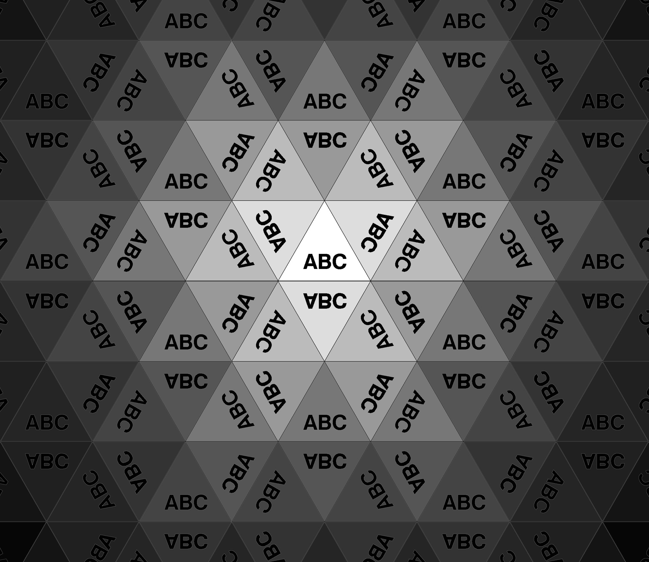 Creation of a kaleidoscope image using three mirrors with 60 deg. angles